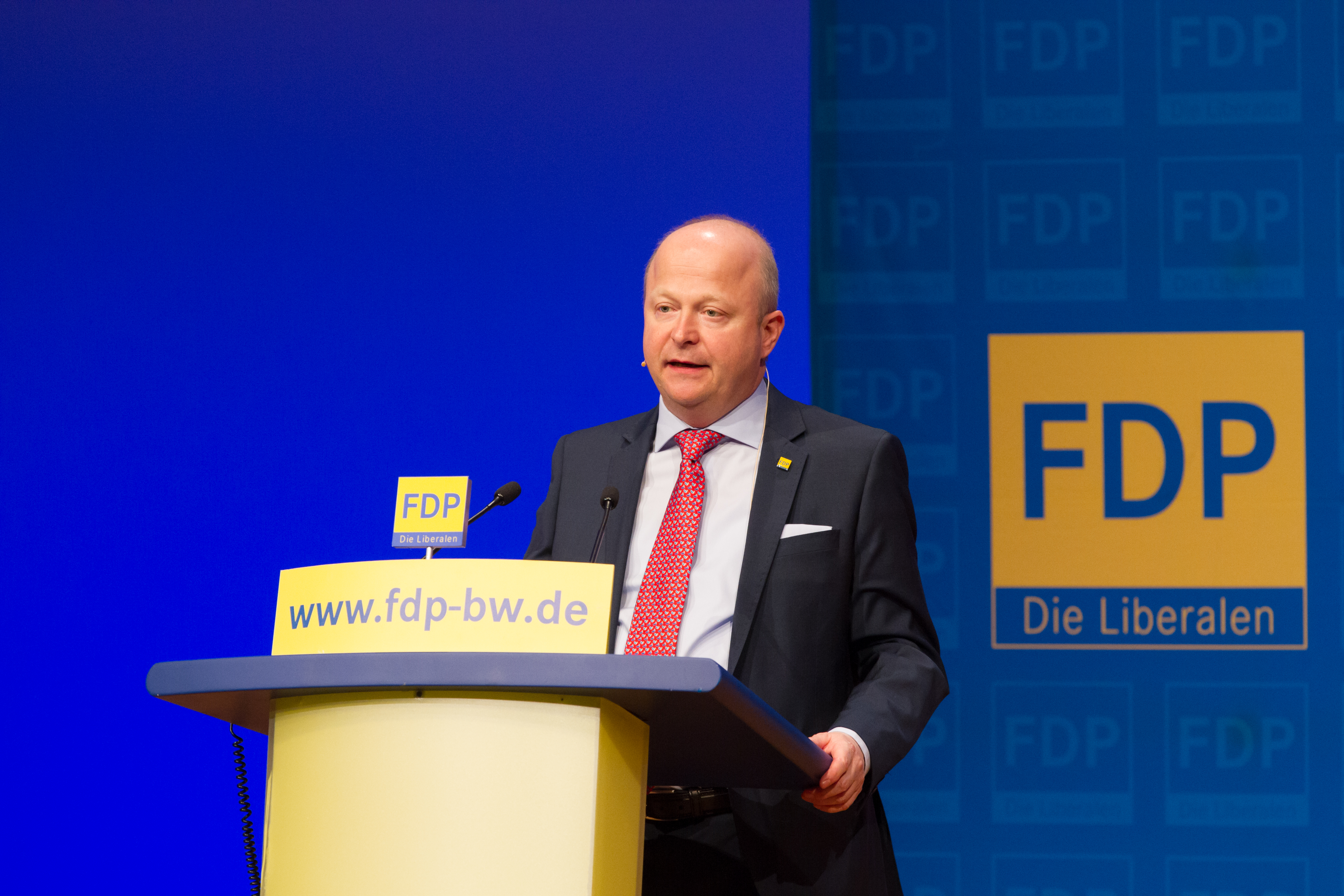 Series: 112th regular party convention of the FDP Baden-Württemberg in Stuttgart on January 5th, 2015 Image: Michael Theurer